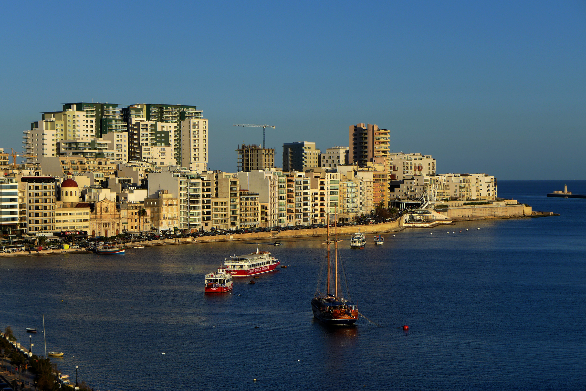 Sliema, Malta in the afternoon in february